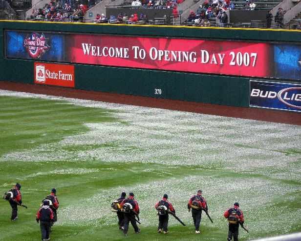 The Jacobs Field grounds crew uses leaf blowers to clear snow from the outfield during the home opener in 2007. The game was eventually postponed because of continued snow squalls.